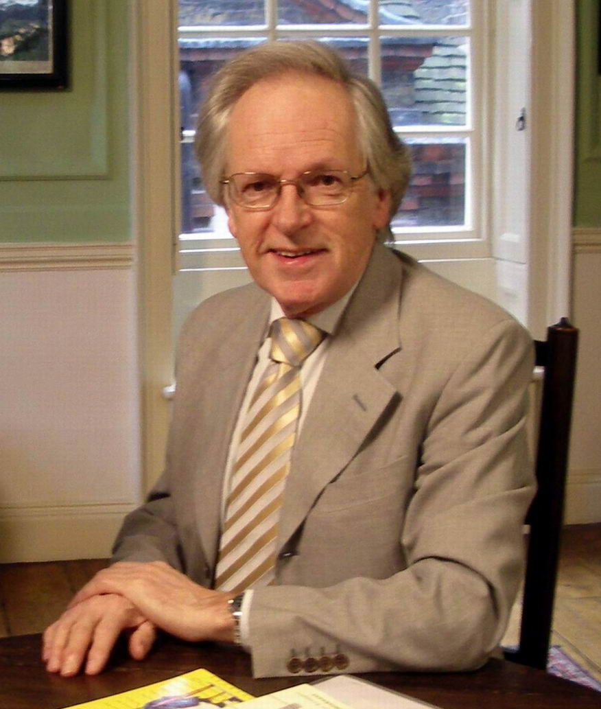 Nigel Rees at Dr Johnson's House, London